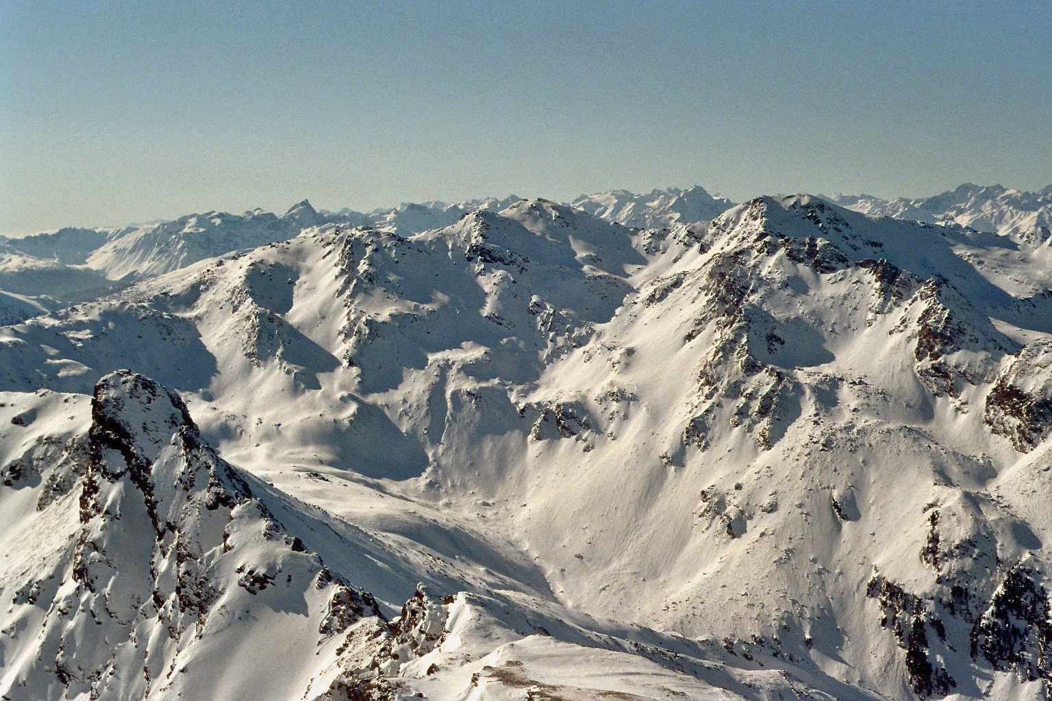 The upper Voldertal with Sunntiger, Grafmartspitze, Grünbergspitze, Rosenjoch. Seen vom the Malgrübler